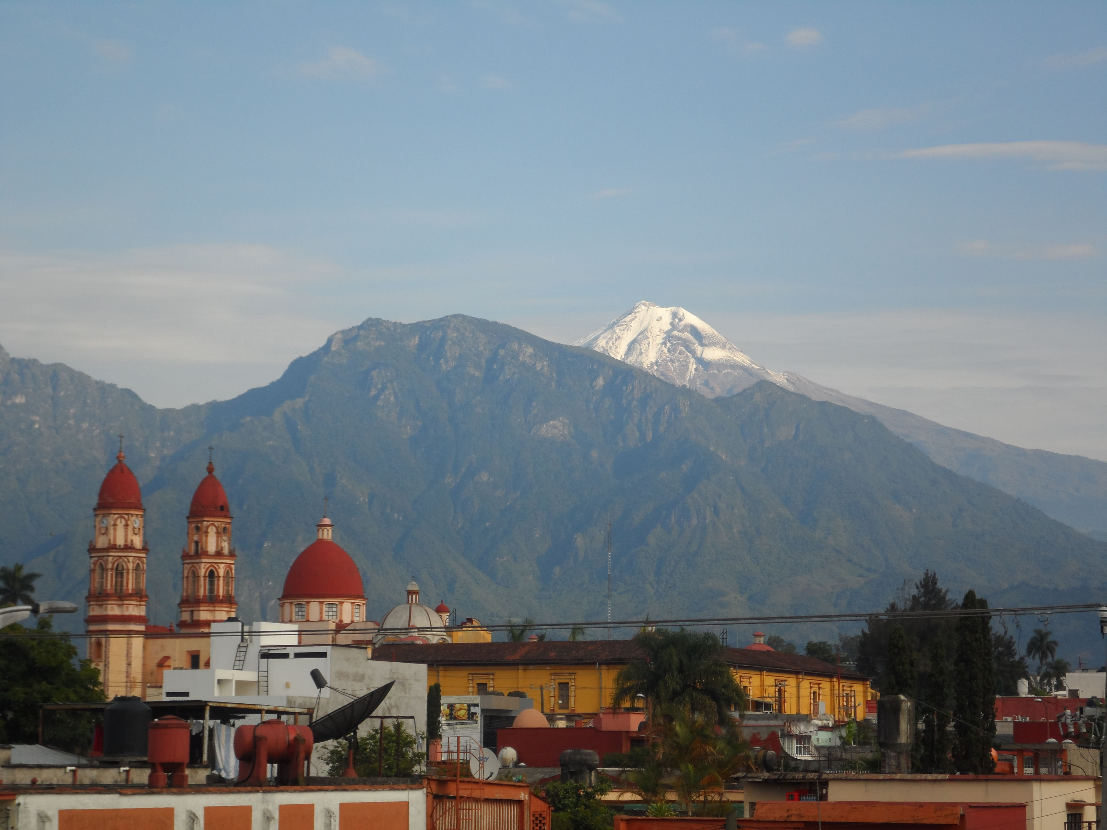 The Concordia's Church watching the Pico de Orizaba's volcano